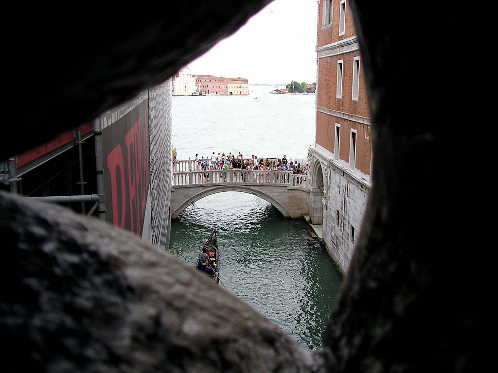 This is the view from the Bridge of Sighs in Venice, Italy, supposedly a convict's last view of the world before being led to prison.